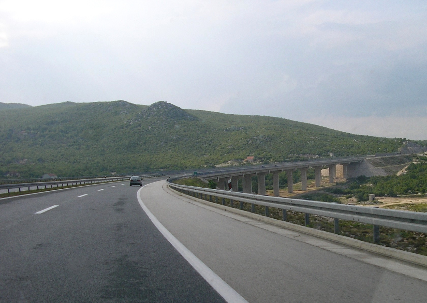 Viaduct Srijane on A1 highway in Croatia